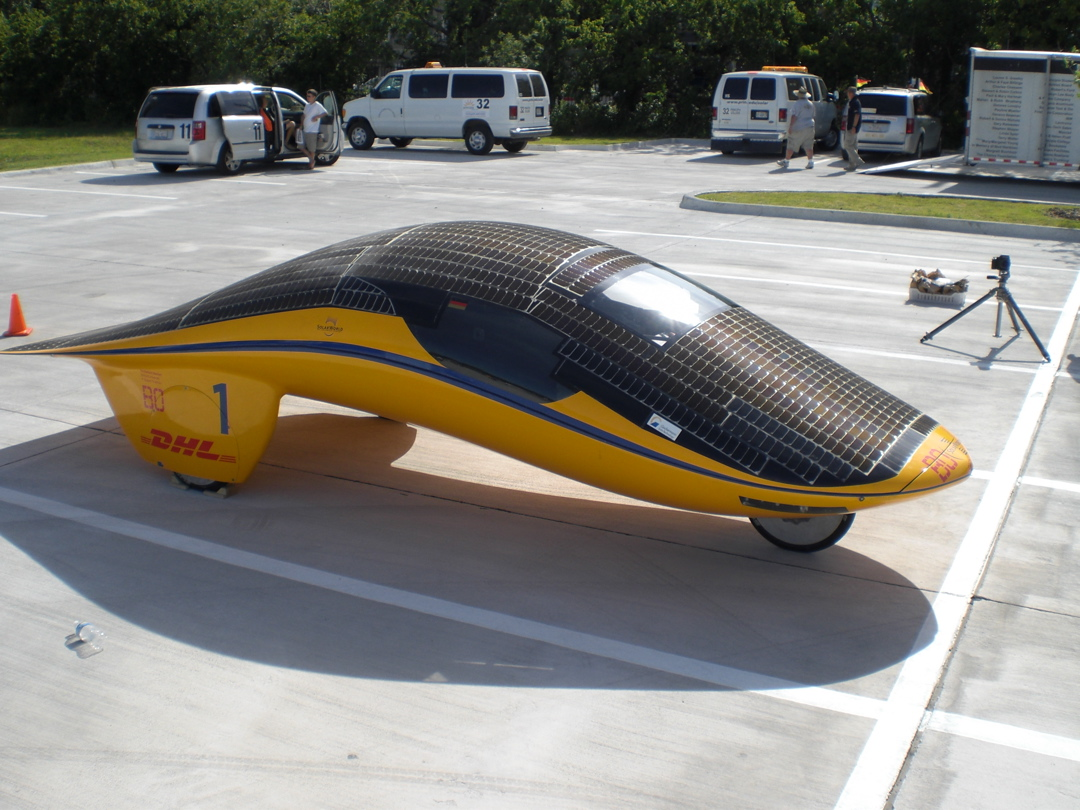 This one's from Boschum University in Germany and by far my favorite car at the race (even including our own). From both an engineering perspective and an aesthetic perspective, it's beautiful.